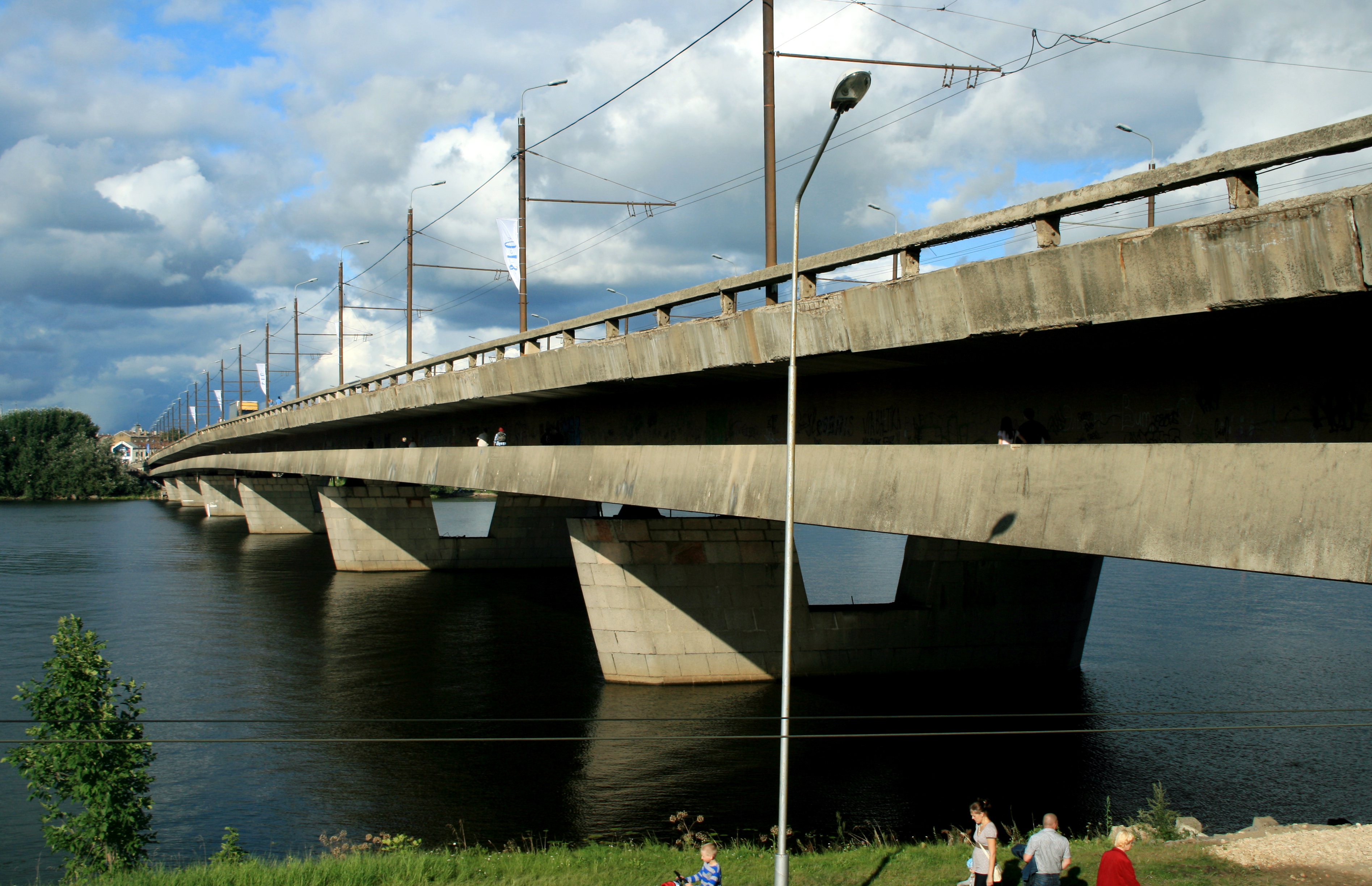 Island bridge, Riga, Latvia